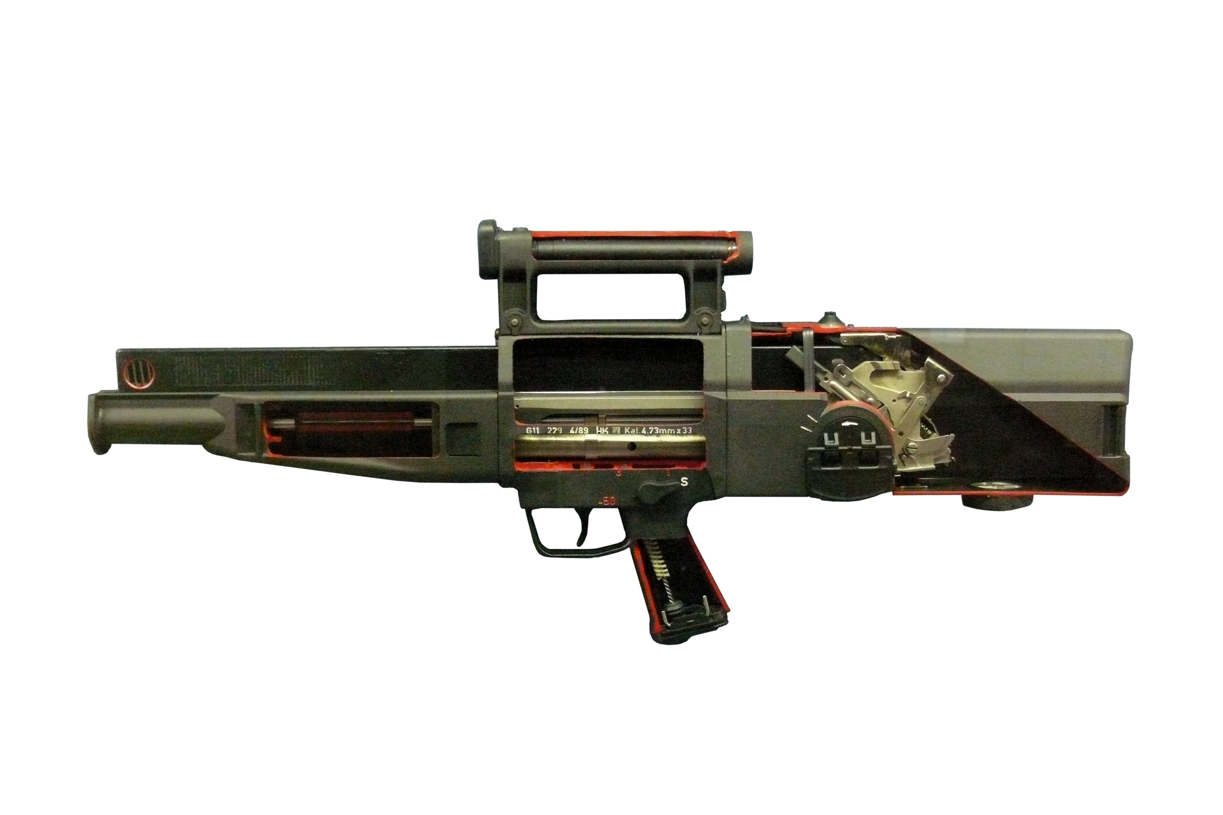 A sectional model of the G11 Assault rifle.